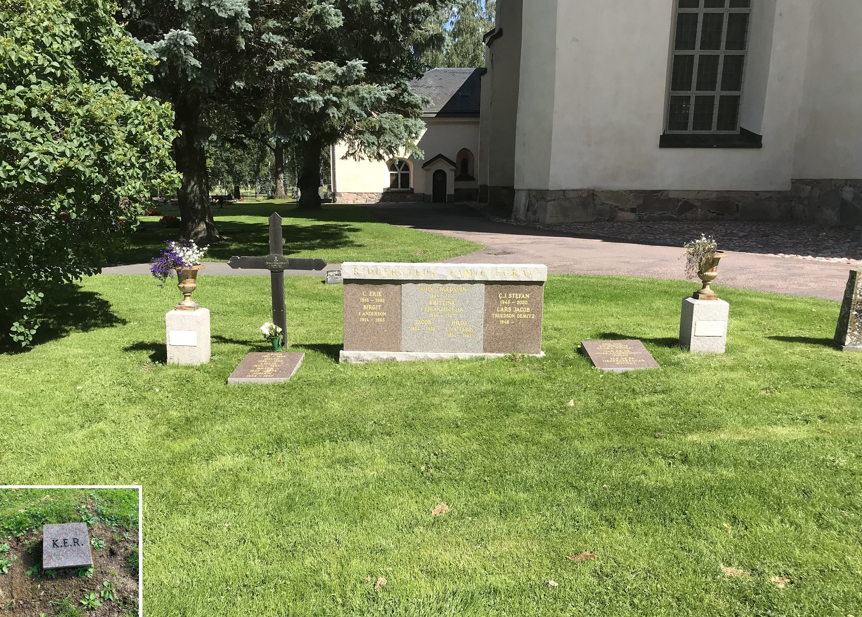 Ridderstedt Family grave # 11-0818 as one symmetrical unit after renovation and rearrangement in June 2020 (insert: new marker in actual position of founding mother's grave # 13-0543 at 42m north/northwest)Place: Stora Tuna Churchyard, Borlänge, Sweden